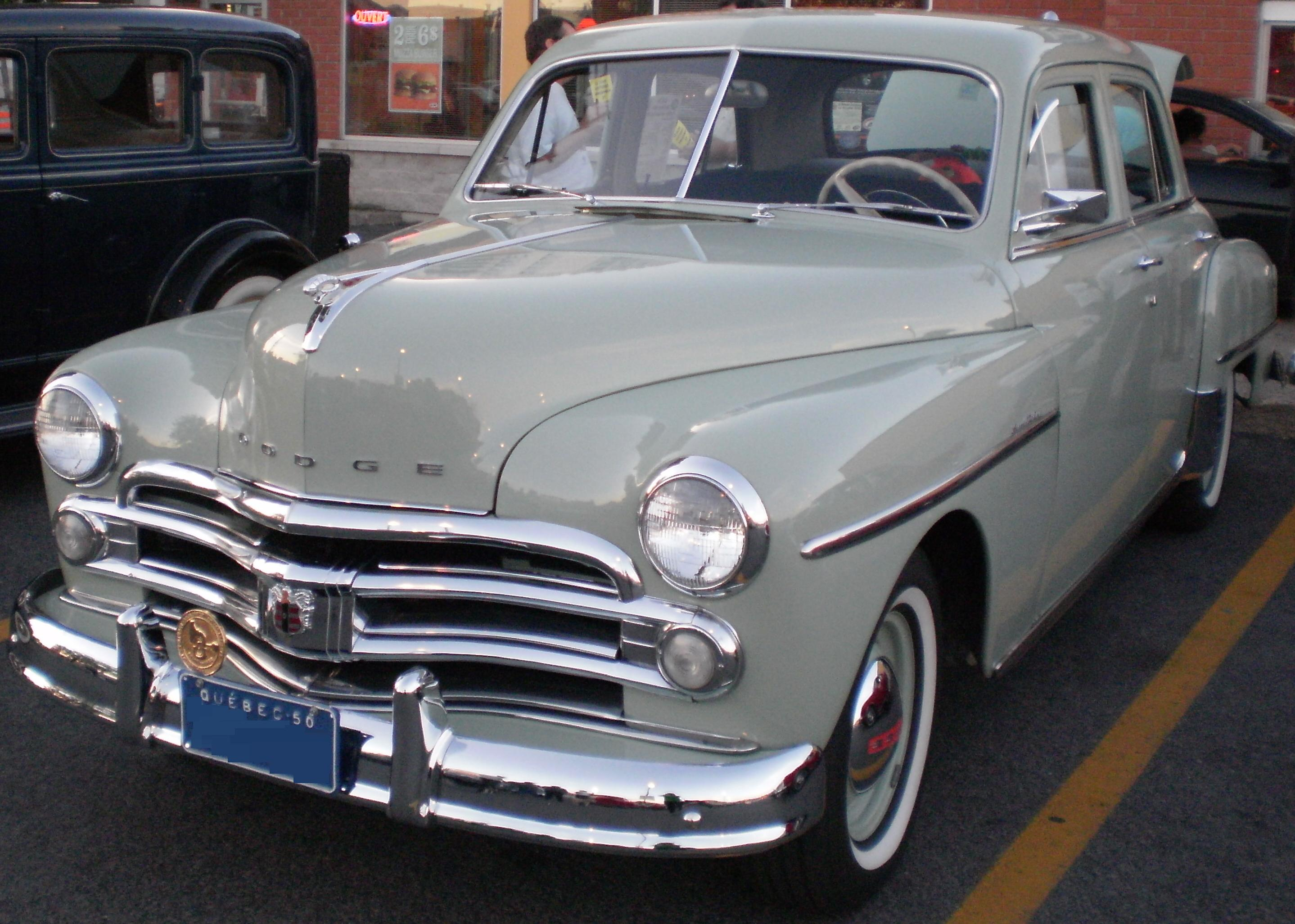 1950 Dodge Special DeLuxe photographed in Montreal, Quebec, Canada at A&W St._Léonard). This is a Dodge-badged Plymouth Special DeLuxe, offered in the Canadian market as a lower priced alternative.